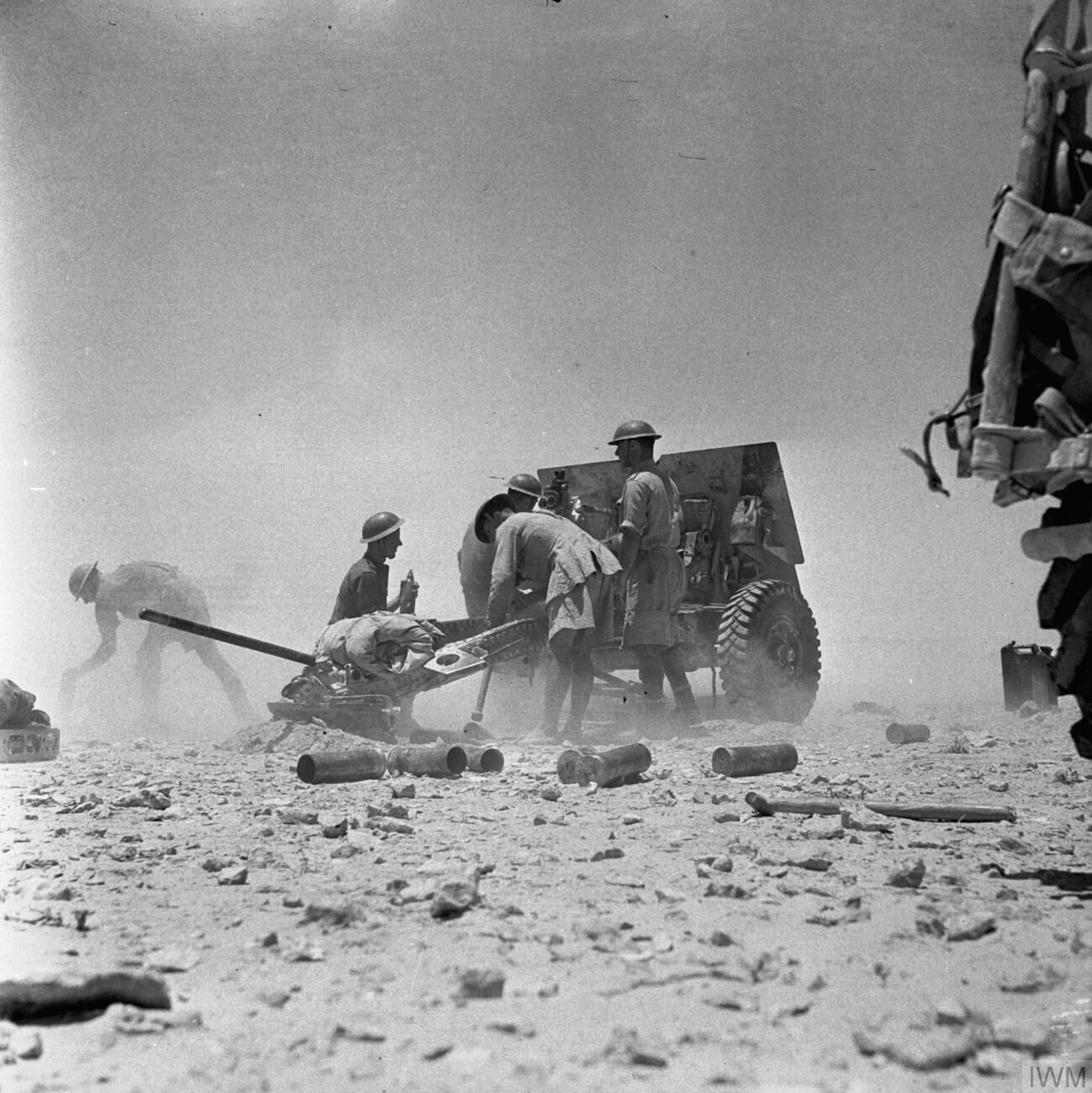 The British Army in North Africa 1942 A 25-pdr field gun of 11th Field Regiment, Royal Artillery, in action during the First Battle of El Alamein, July 1942.